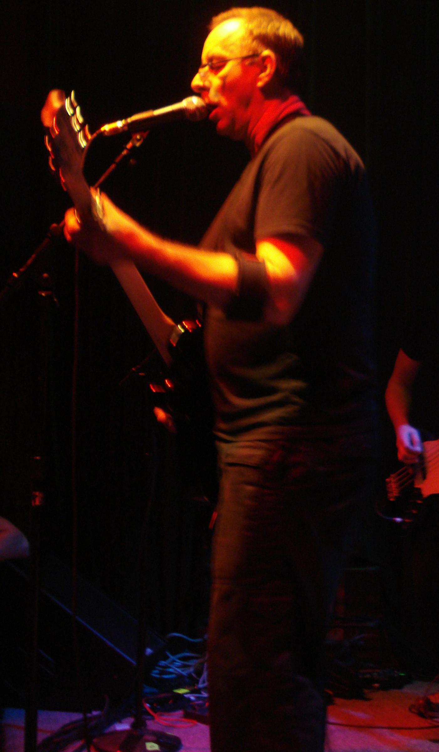 Colin Newman of Wire at Johnny Brenda's in 2008